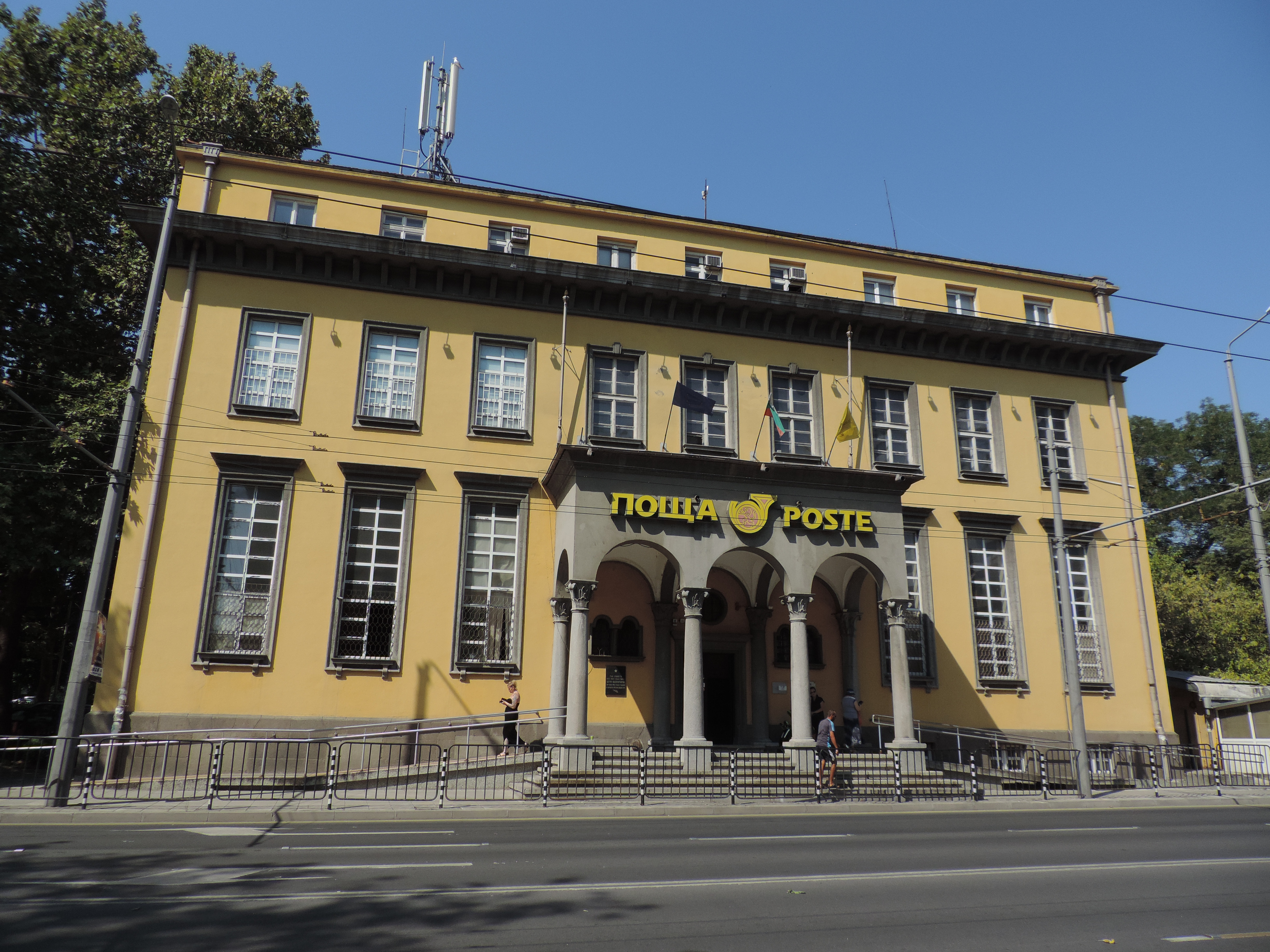 Central post office in Burgas, Bulgaria